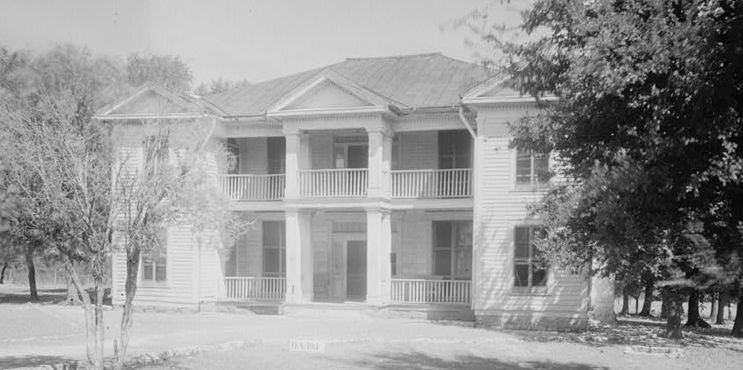 Colonel Elijah Sterling Clack Robertson Plantation — off I-35, in Salado, Bell County, Texas. Listed on the National Register of Historic Places in Bell County, Texas. Image: HABS—Historic American Buildings Survey of Texas.